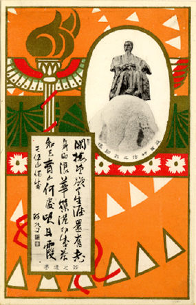 Japanese postcard showing a bronze statue of Nishimura Sutezo